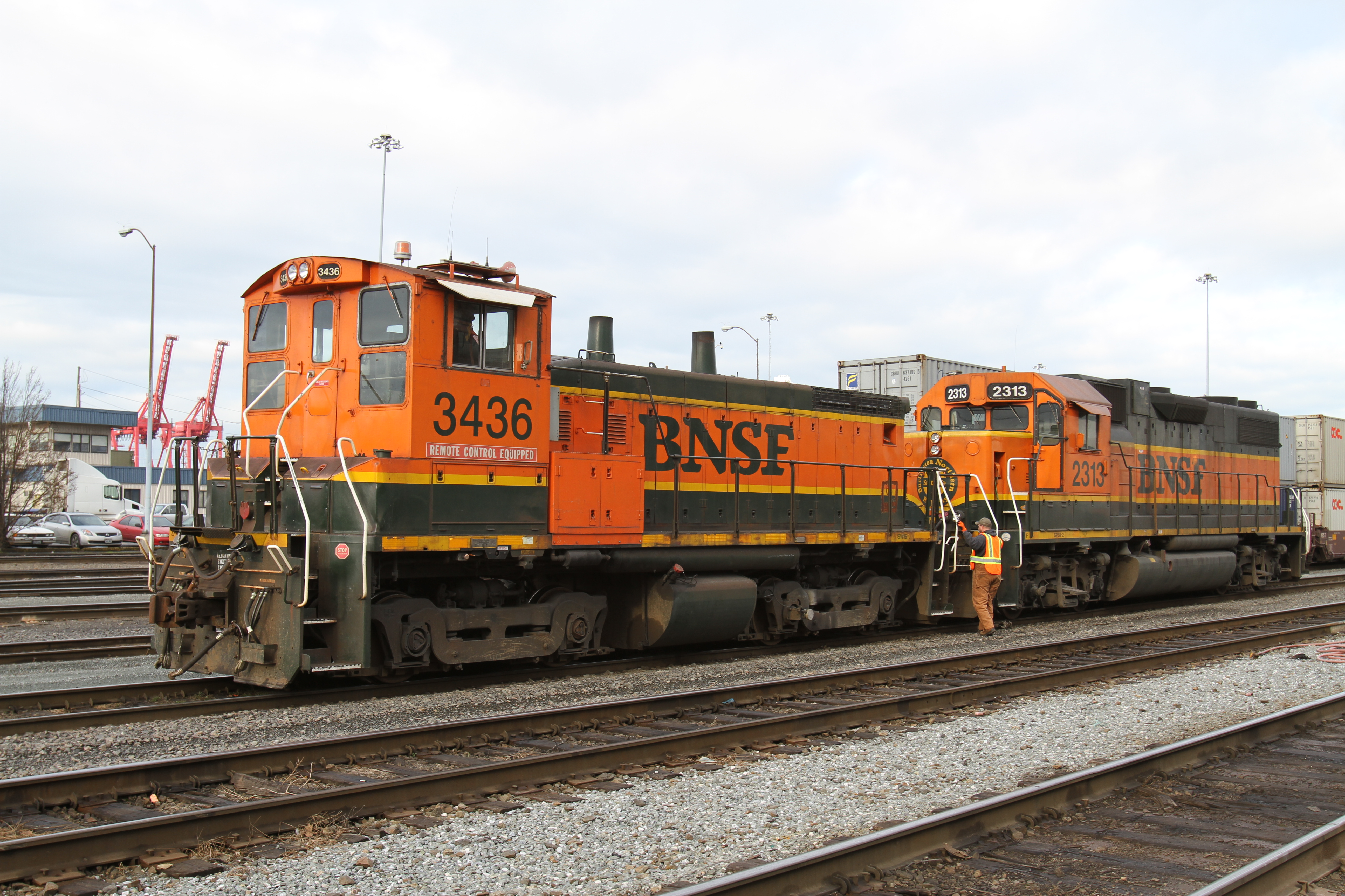 "3436", an EMD SW1500 diesel-electric locomotive, is shown in use by BNSF Railway Company in 2010 at the Stacy Car Yard located south of downtown Seattle, Washington, United States. First manufactured in 1972, "3436" has been converted to remote control capable operation. A "Remote Control Equipped" sticker located near the "3426" identification number appears on the cab. "3425" is shown coupled to "2313", an EMD GP38-2 diesel-electric locomotive manufactured in 1975.